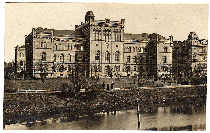 The Riga Polytechnikum - now The University of Latvia's main building.